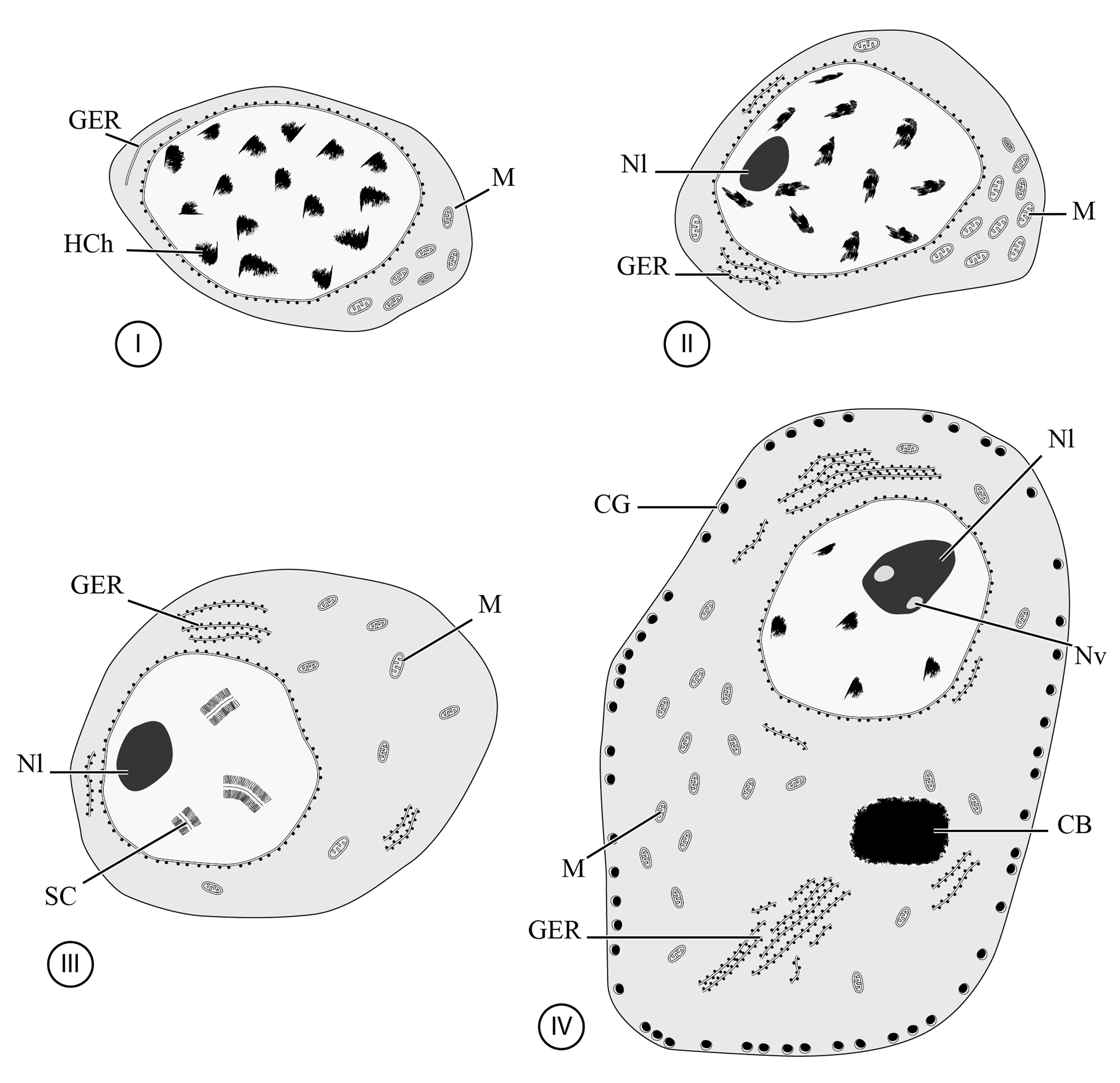 Figure 16 of paper. Diagram showing the four stages (I–IV) of the oogenesis of Crepidostomum metoecus. CB: chromatoid body; CG: cortical granule; GER: granular endoplasmic reticulum; Hch: heterochromatin; M: mitochondrion; Nl: nucleolus; Nv: nuclear vacuole; SC: synaptonemal complex.